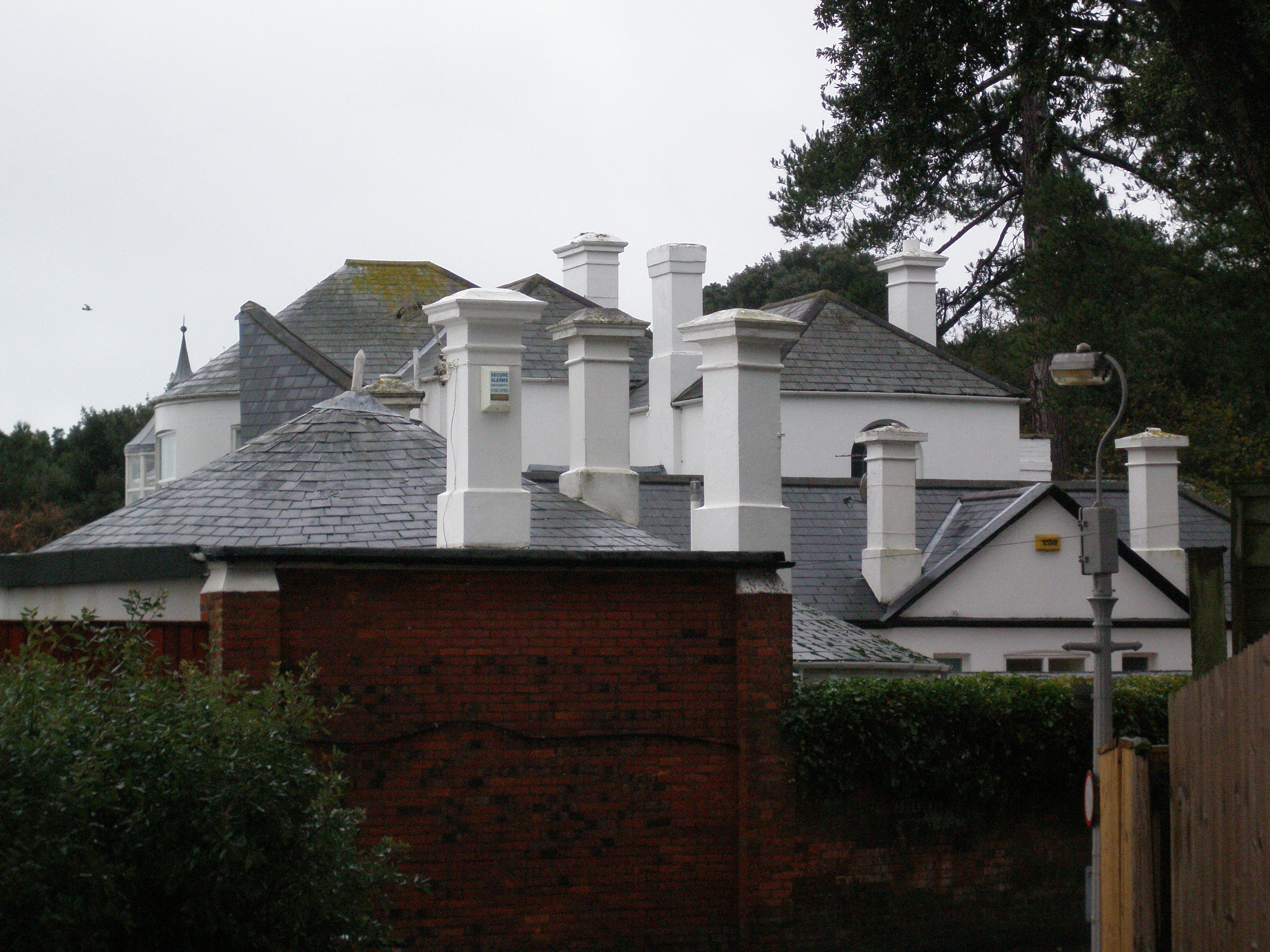 Gundimore is a grade II listed building in Christchurch, Dorset, built in 1796 for the poet William Rose. The building is of the most unusual design, said to have been built in the shape of a Turkish tent, complete with gilt arabic inscriptions to remind the original owner of his travels in the east. It consisted of a centre section and 2 wings. The centre section has 5 windows with a large curved centre bay with a shallow pitched, conical roof. At the south west corner of this bay is a round, 2 storey turret, shaped like a squat house with the upper storey almost completely glazed. The north eastern wing is now Scott's Cottage. Rose is believed to have designed at least part of the house himself.